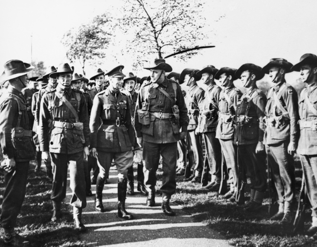 The King inspects troops from the Australian 2/3rd Field Regiment and 18th Brigade at Chester, UK, October 1940